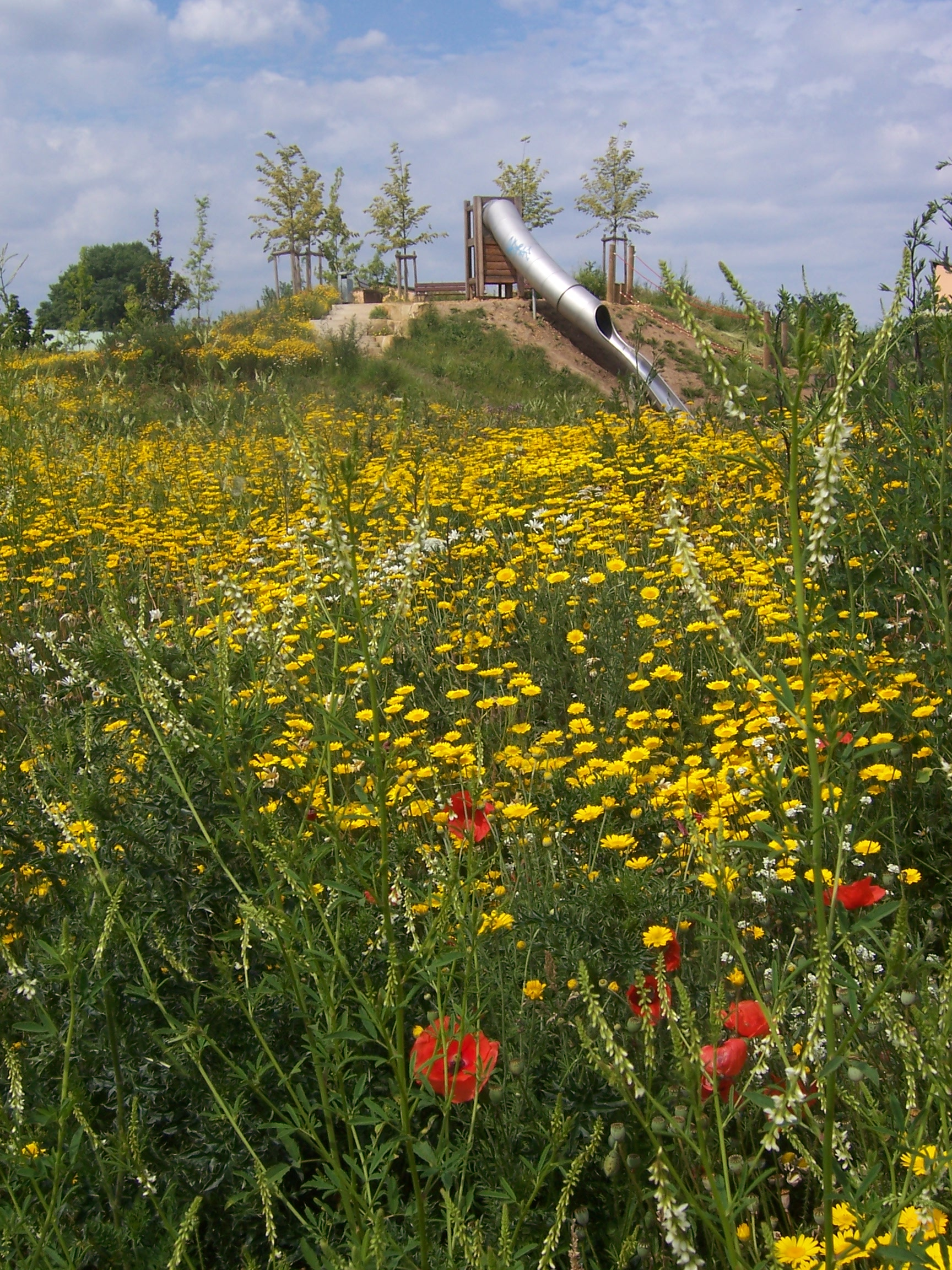 Playground, "Am Wingertsbuckel" Civic Park, Mannheim-Feudenheim, Germany